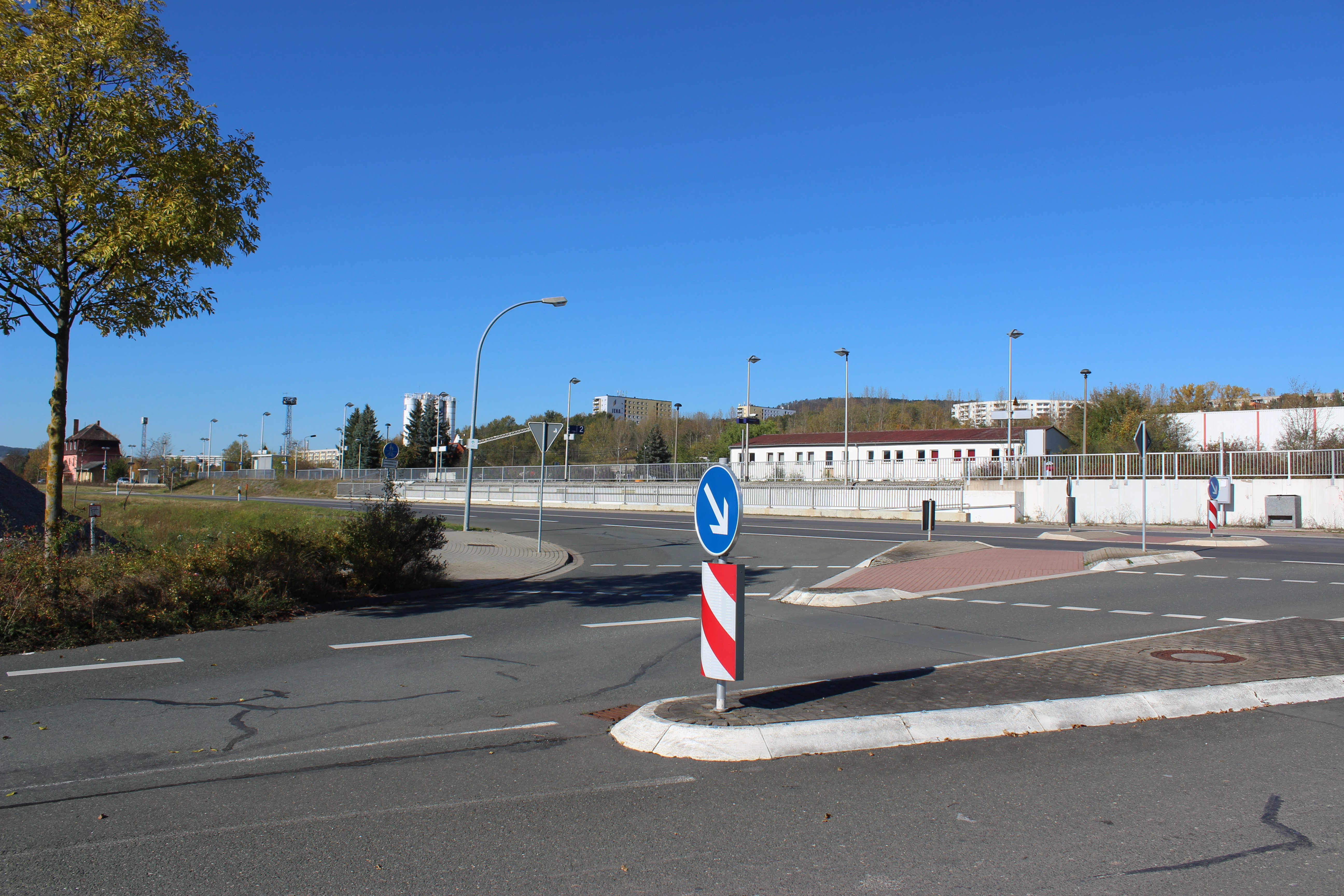 train station Neue Schenke, street side